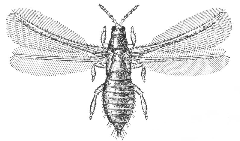 Pear Thrips, adult